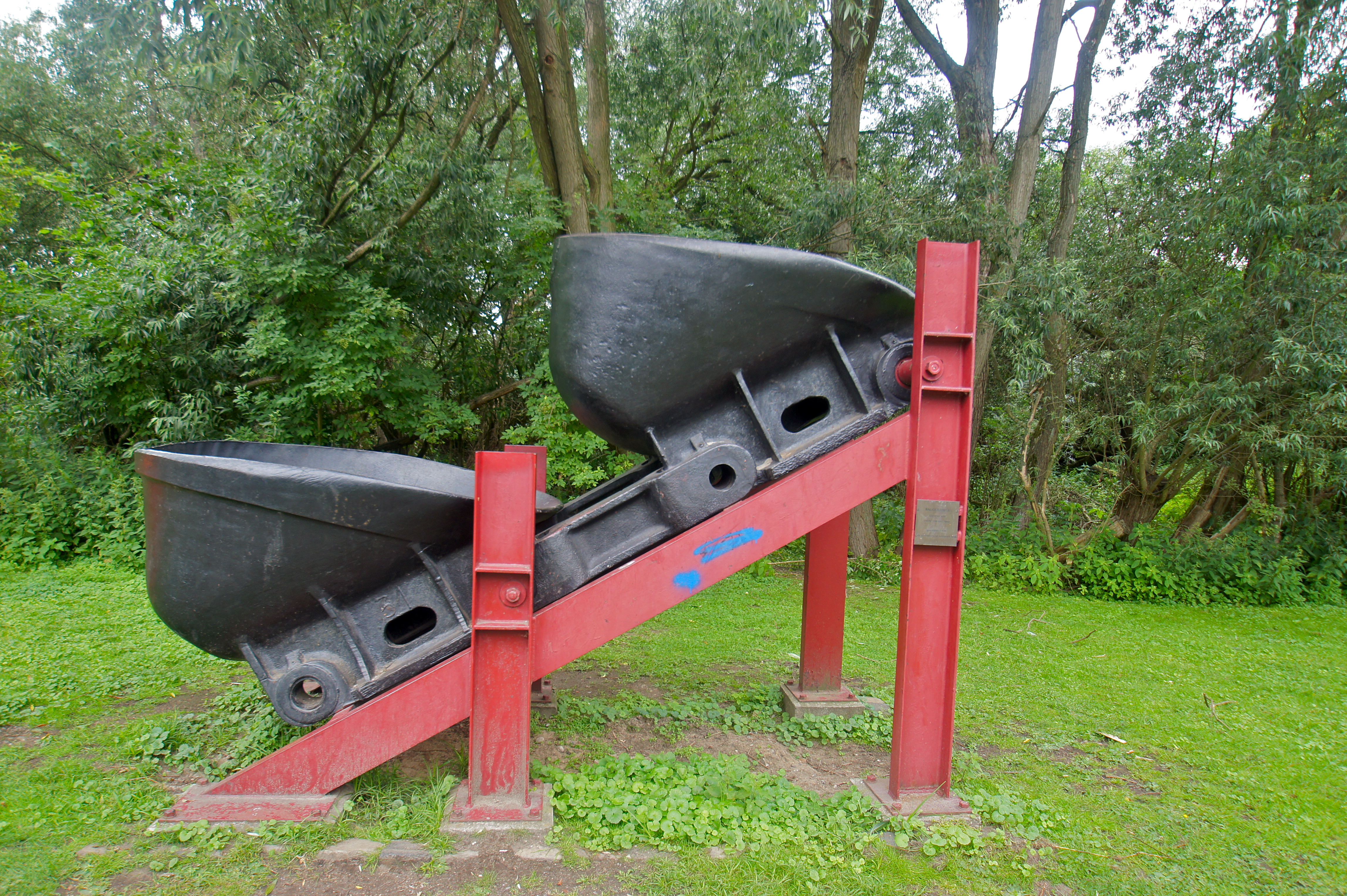 Hamburg (Wilhelmsburg), Germany: Dredging bucket exhibited in the garden of the Bürgershaus